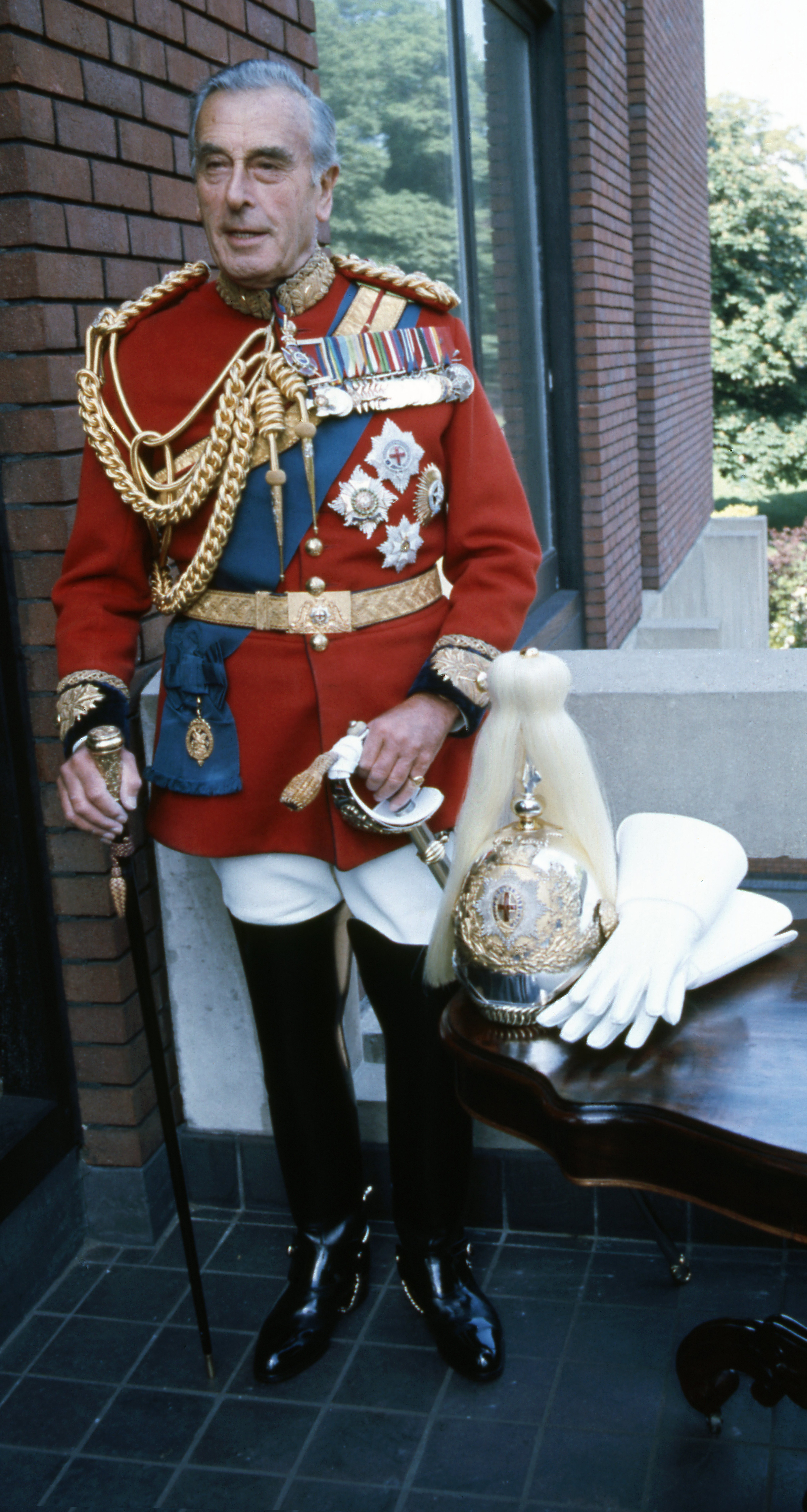 Earl Mountbatten of Burma, in uniform as Colonel of the Life Guards, with gold stick in hand (1973).